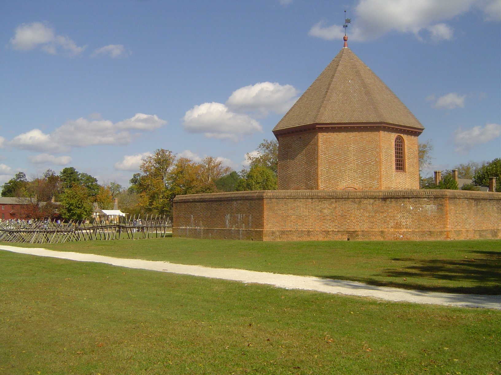 Colonial Williamsburg magazine for holding eighteenth century artillery More images